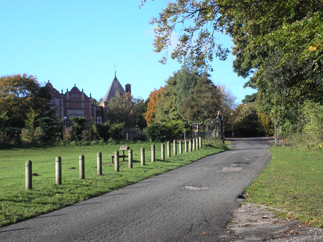 Cornist Hall, Flint Cornist Drive leading to Cornist Hall, former home of Thomas Totty, an admiral who served with Lord Nelson. In 1889 it became the residence of the Summers steel family.